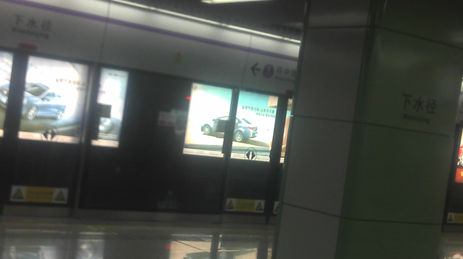 This photo was taken as September 30, 2011.